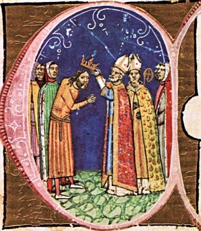 Coronation of Coloman